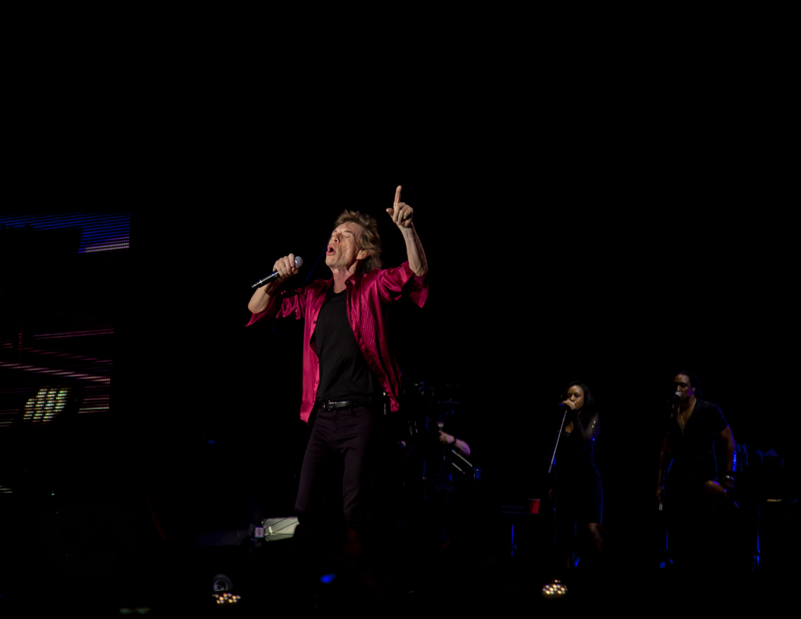 Mick Jagger from Rolling Stones Concert in Havana Cuba images by Big D from